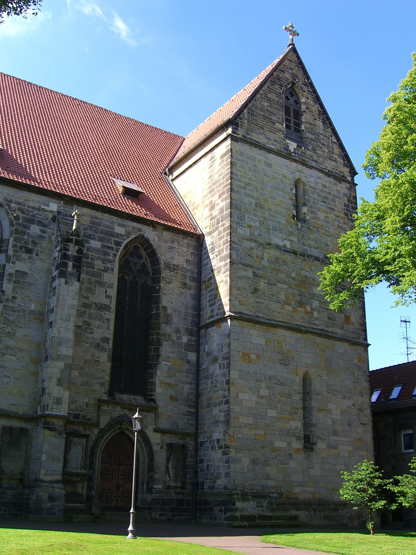 Evangelical-lutheran church "Saint Stephen" (St. Stephani) in Helmstedt: northern front and westwork.